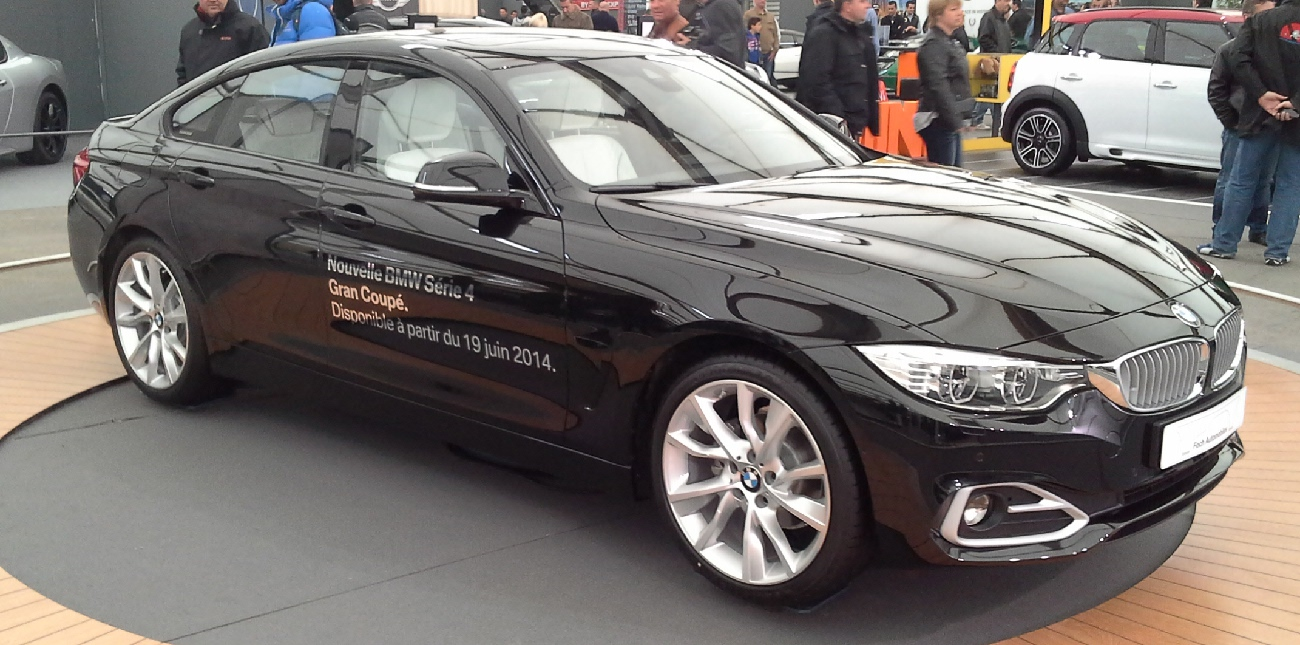 BMW 4-Series F36 Gran Coupé photographed at the 2014 Avignon Motor Festival in Avignon, France.